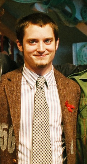 Elijah Wood at the World Premiere of the third part of the Lord of the Rings in Wellington, New Zealand